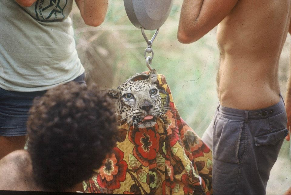 Leopard in the Judean desert photographed by